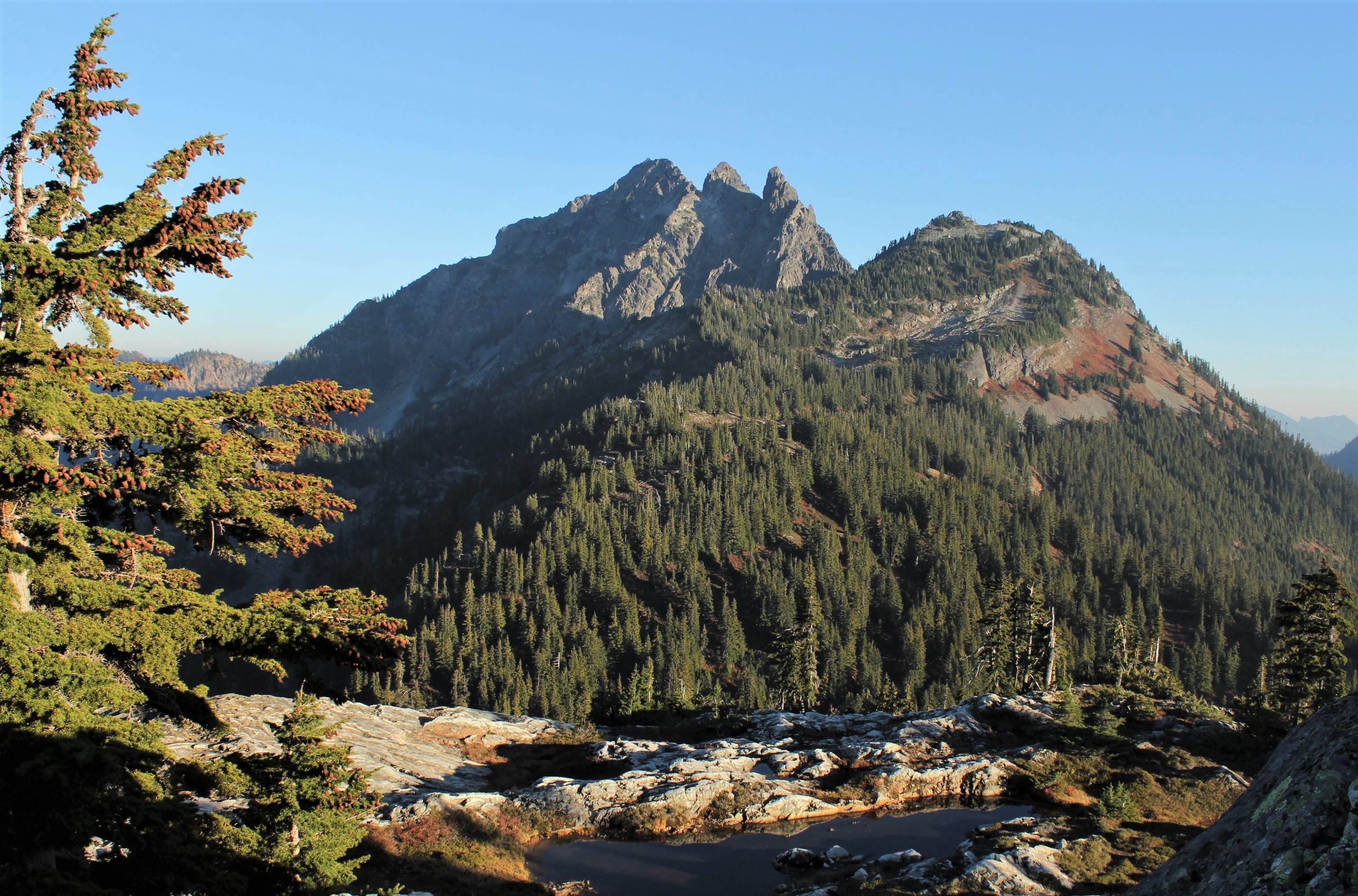 Three Queens, Chikamin Ridge